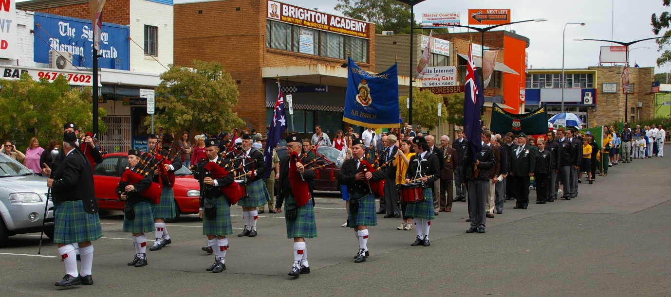 This image was made by me